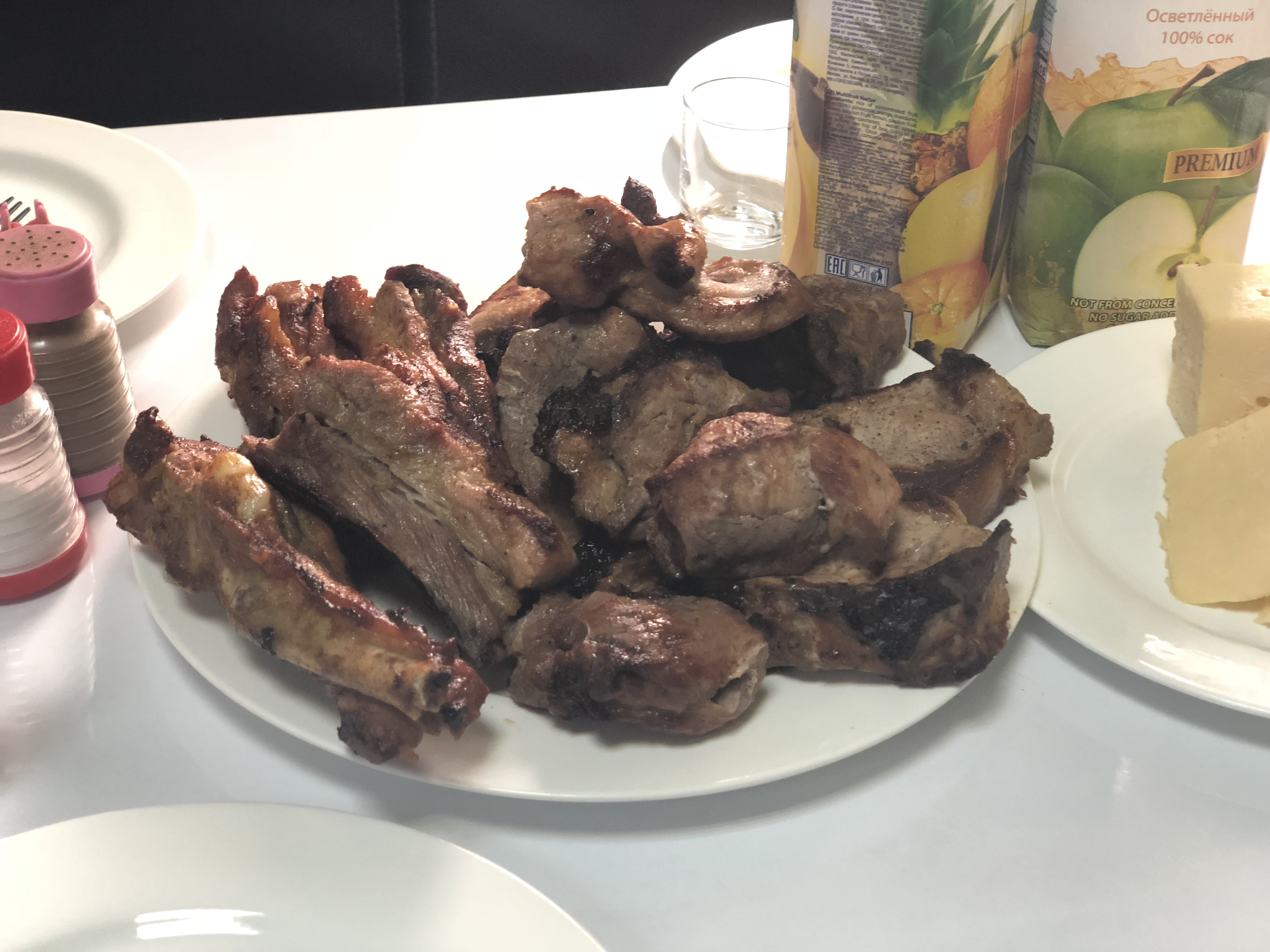 Khorovats